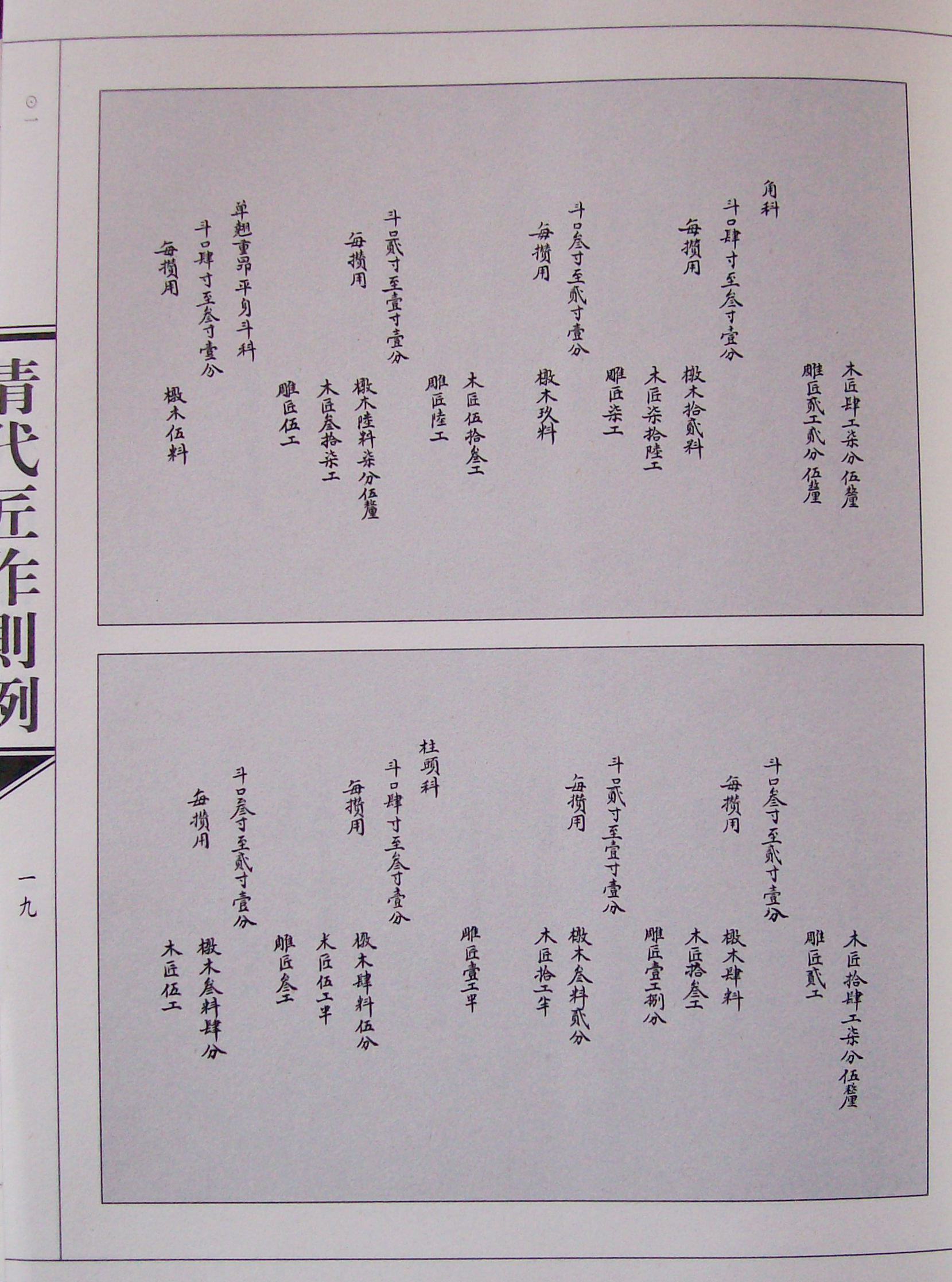 Woodwork regulation of Gardens of Perfect Clarity